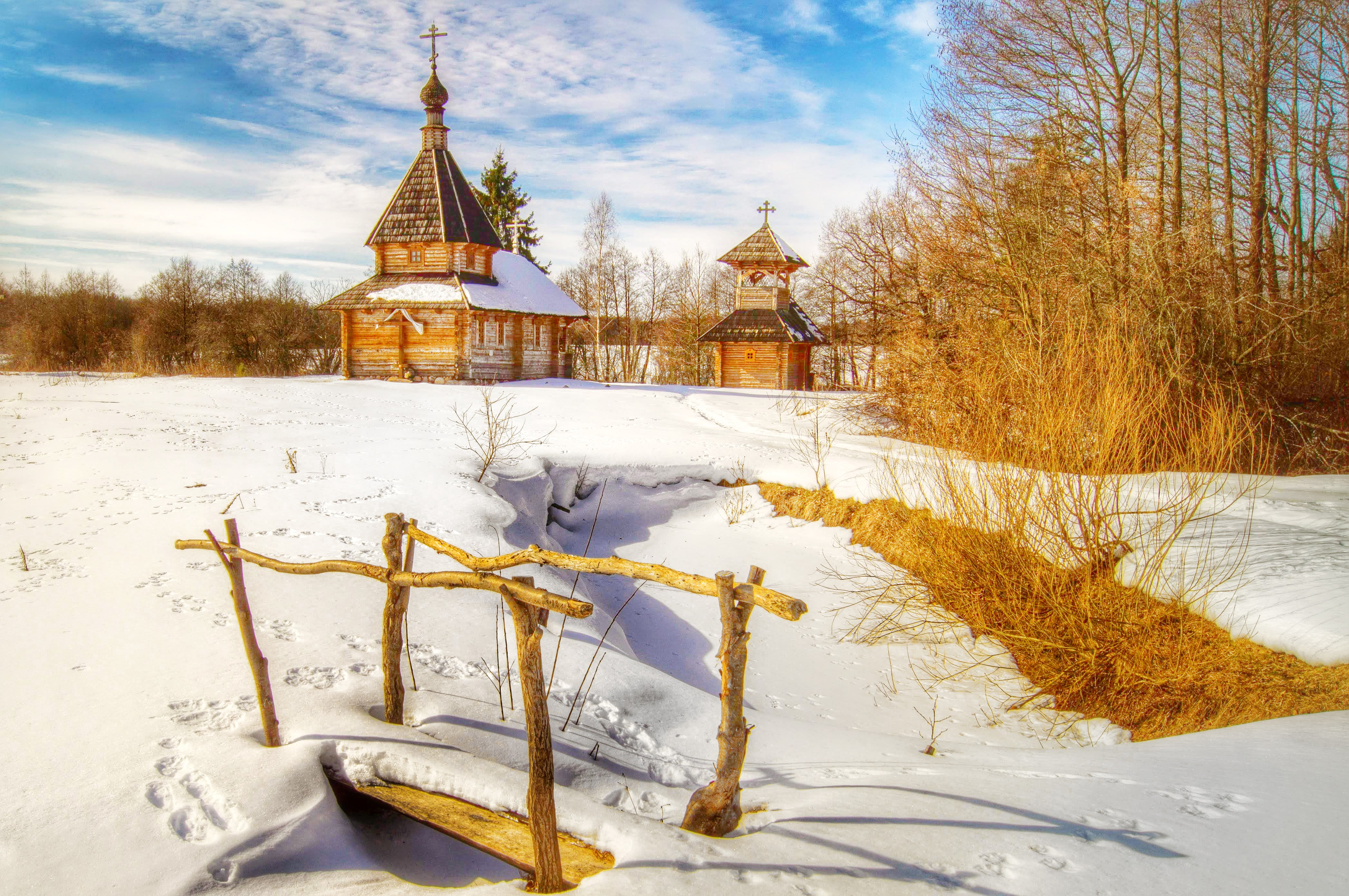 Boris and Gleb chapel in Zabroddzie